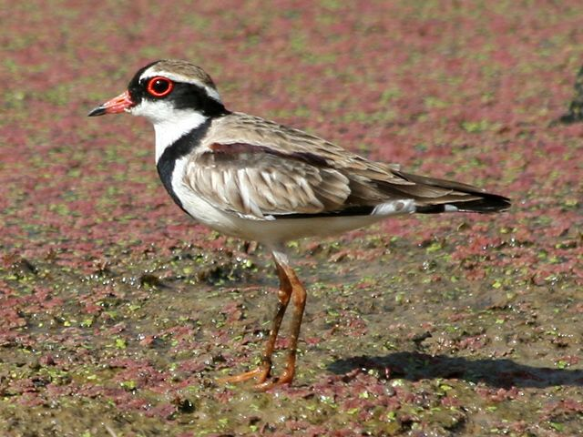 Black-fronted Dotterel, Elseyornis melanops